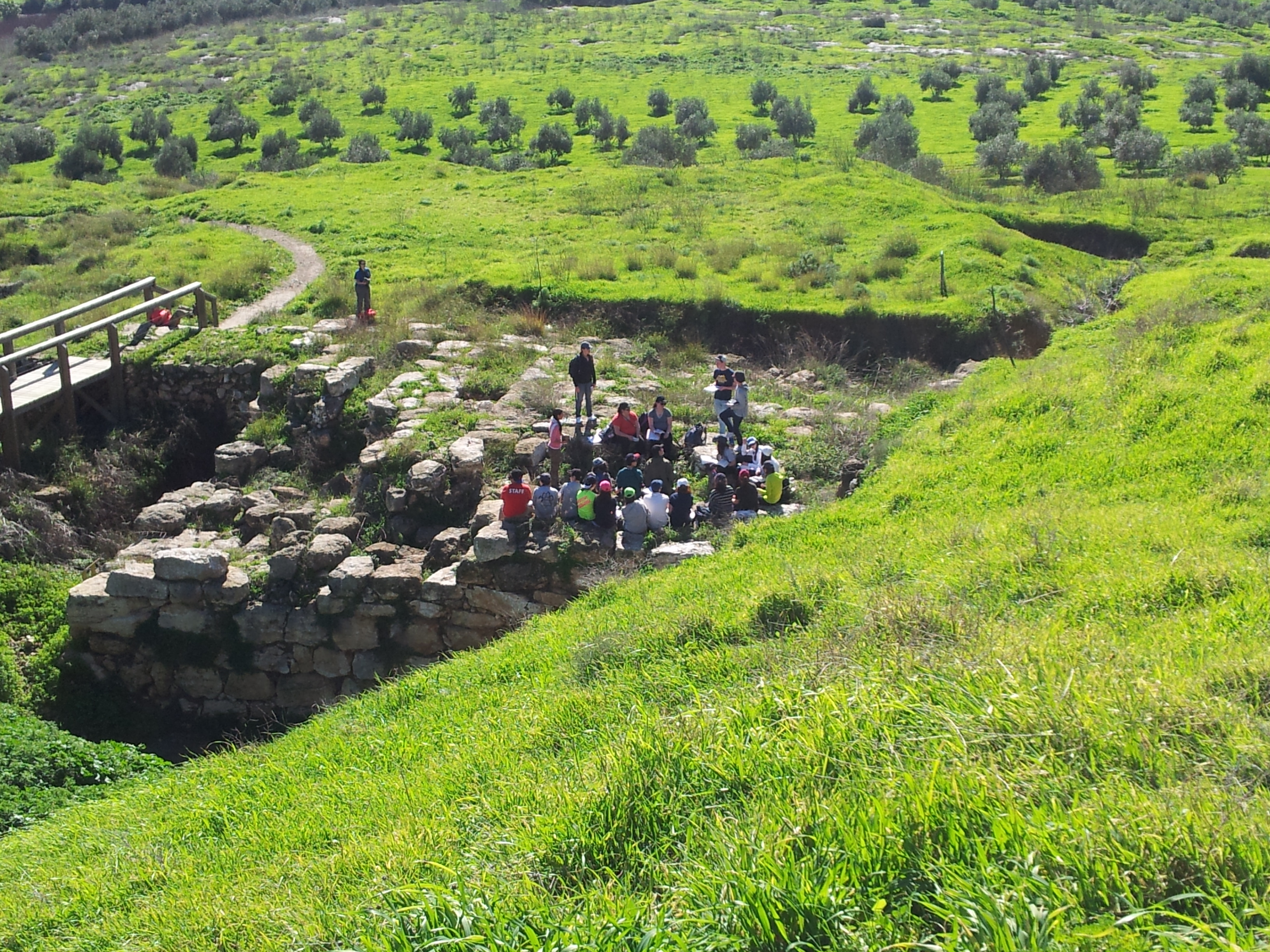 Taglit (Birth Right) Group on Tel Gezer